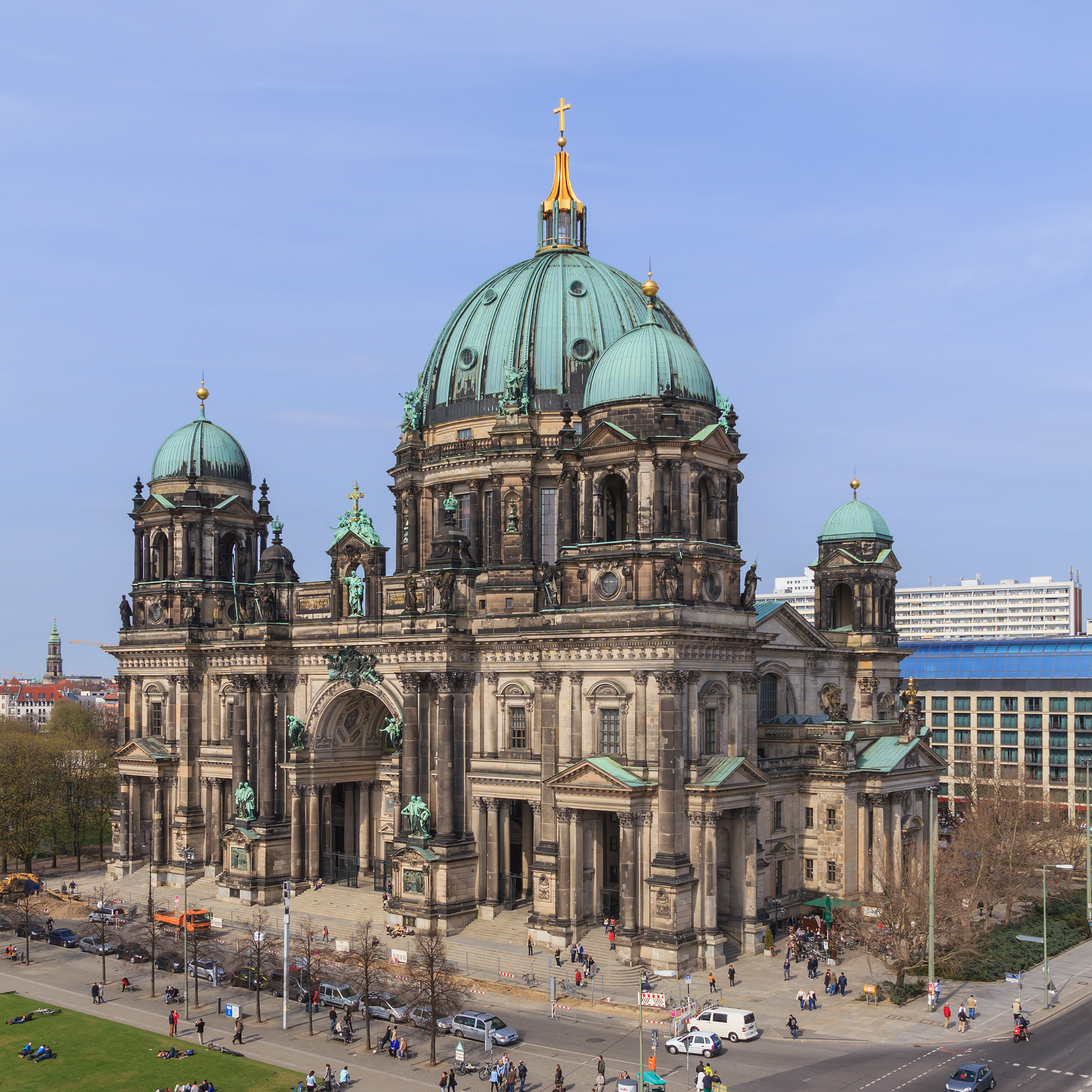 View of Berlin from Humboldt Box (Schlossplatz). Berlin Cathedral.